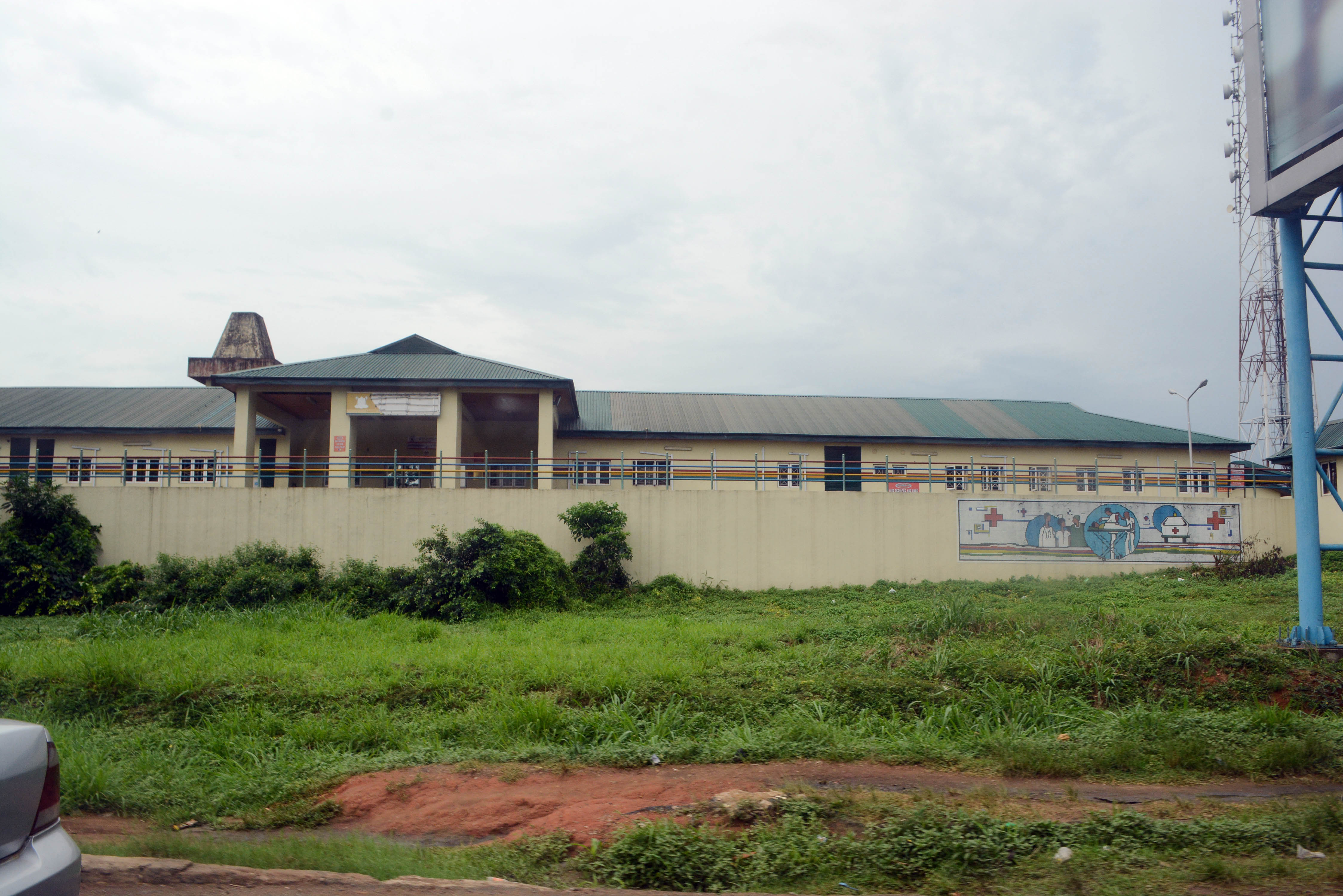 Lagos Toll gate